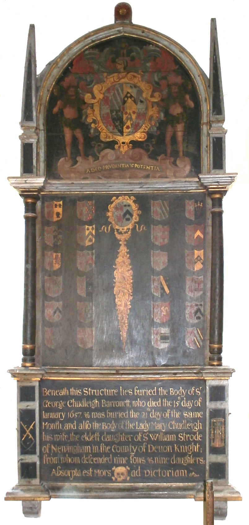 Mural monument in St Michael's Church, Ashton, Devon, to Sir George Chudleigh, 1st Baronet (d.1656). For a description of the monument and its heraldry see: Report and Transactions of the Devonshire Association, Vol.31, 1st Series (Vol 1, 2nd Series), Plymouth, 1899, Maxwell Adams, A Brief Account of Ashton Church and of Some of the Chudleighs of Ashton, pp.185-198[1]. See also [2]. (NB "St Michael's Church, Ashton" per Pevsner)